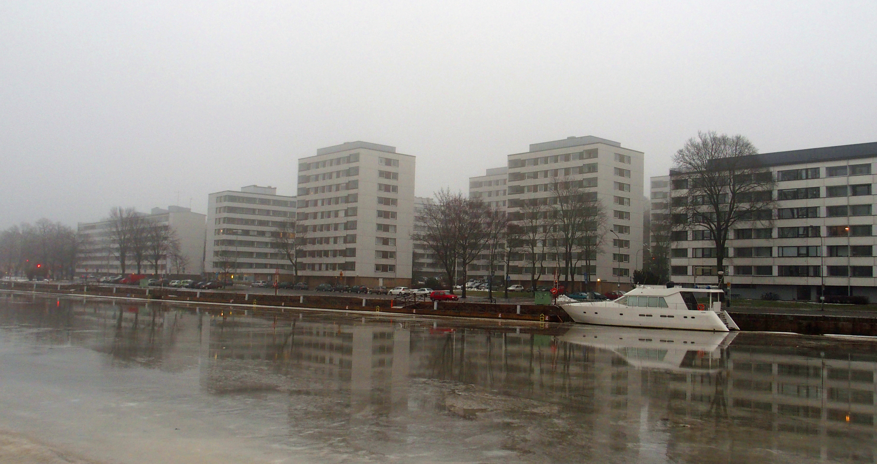 Apartment buildings completed in 1963 to replace the former sugar mill, Auran sokeritehdas (1859–1961), on the same site, located on the eastern shore of the Aura river in the Martti neighborhood in Turku, Finland.